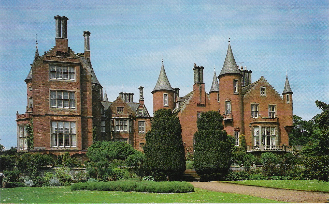 Private photo taken in 1984. No copyright.